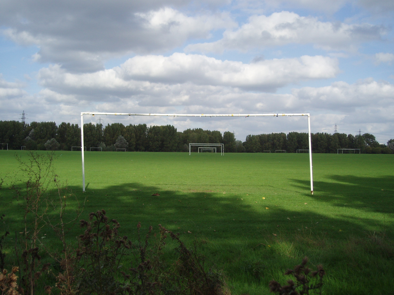 Many sporting fields, where many teams play, on Hackney Marshes. Photo taken October 2006. Owner: London Borough of Hackney (website).